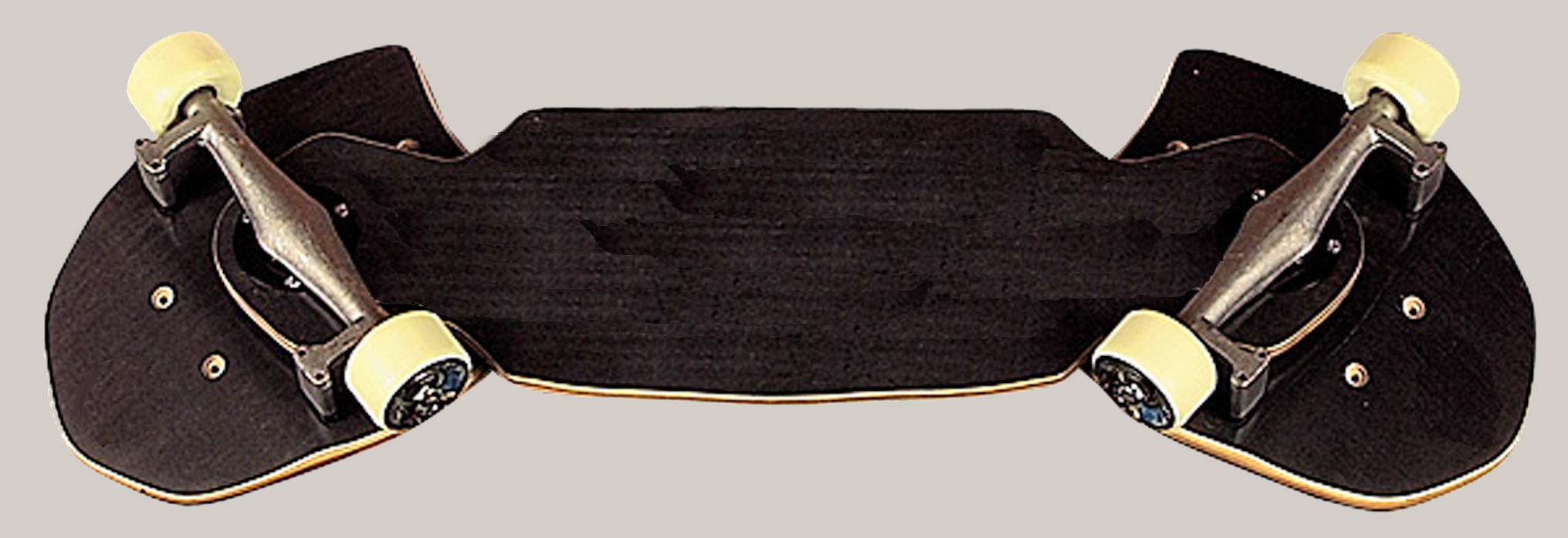 Streetboard anderson old scooll